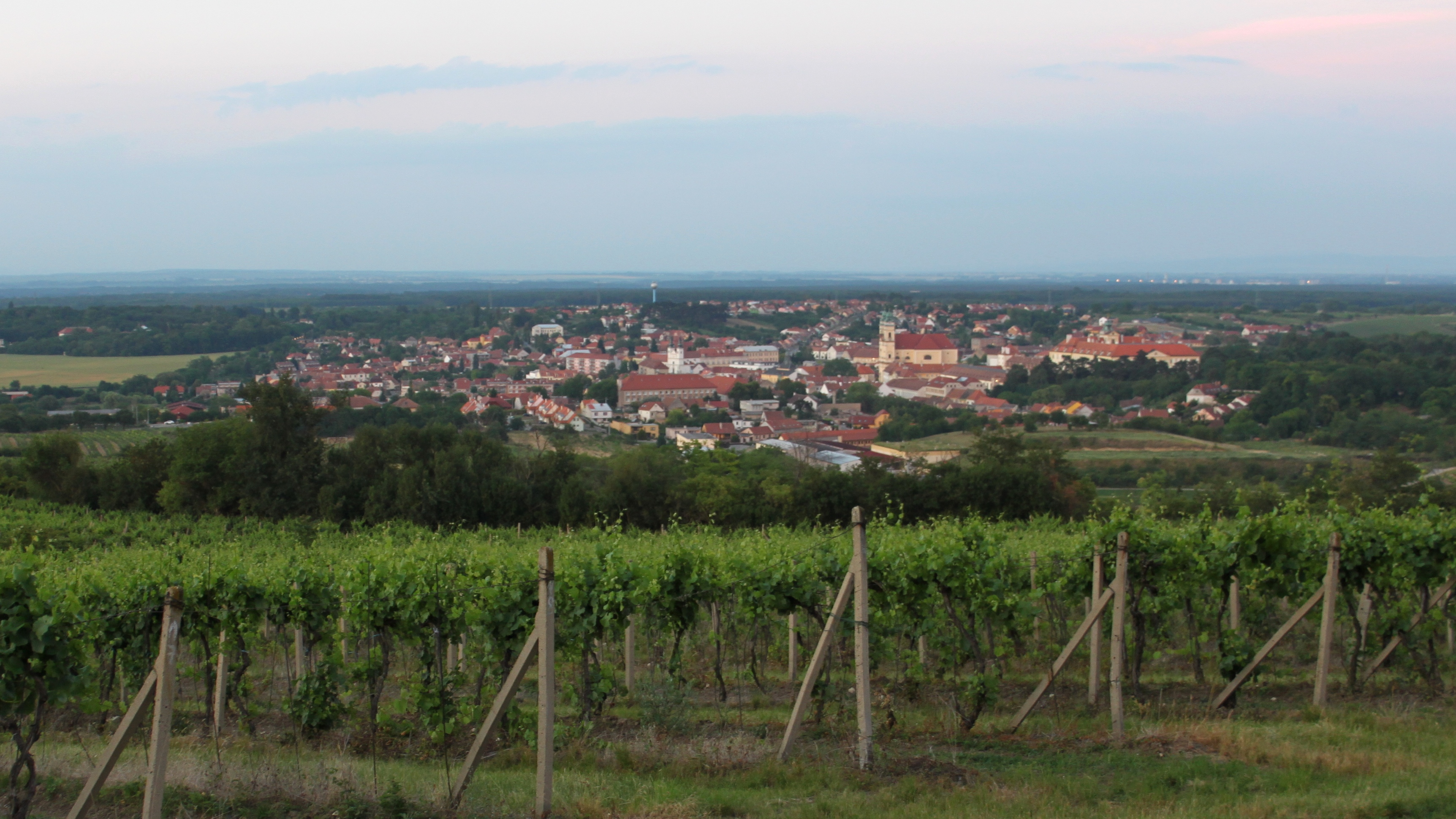 Valtice from Austrian border